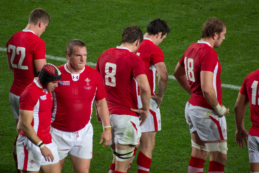 Welsh players after 2011 Rugby World Cup Bronze Final against Australia.